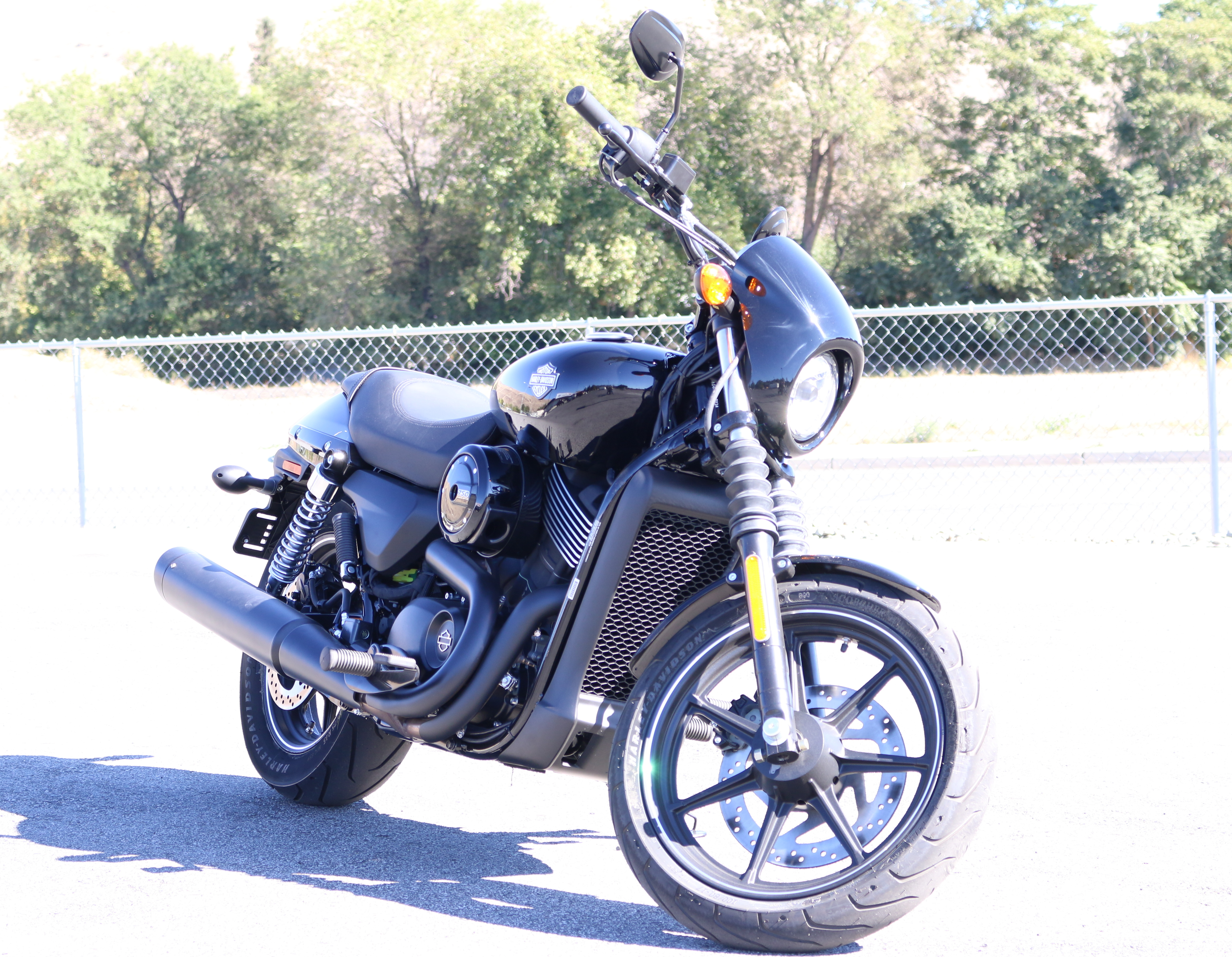 2014 Harley-Davidson Street 750